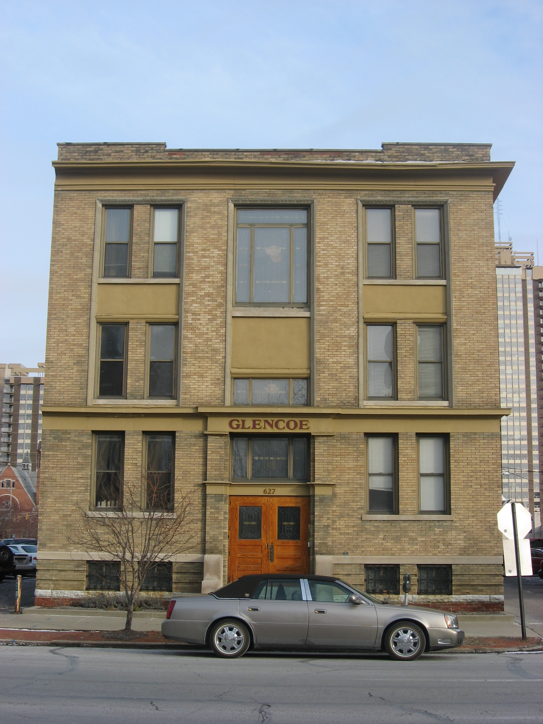 Front of The Glencoe, located at 627 N. Pennsylvania Street in Indianapolis, Indiana, United States. Built in 1902, it is listed on the National Register of Historic Places as one of the "Apartments and Flats of Downtown Indianapolis Thematic Resources".